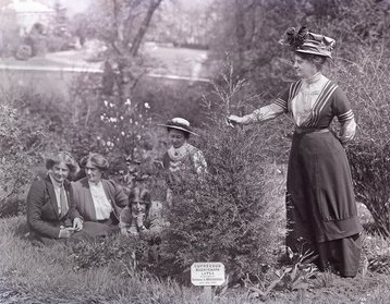 Charlotte Marsh, Laura Ainsworth, Annie Kenney, Mary Blathwayt and Georgina Brackenbury. This picture was taken by Colonel Linley Blathwayt and was stored on glass negatives. The Blathwayt's home of Eagle House way the home of Linley, Emily and Mary Blathwayt who all actively supported the suffragette cause. Nearly all the prominient UK suffragettes stayed with them and these photos and dozens of trees were planted to commemorate their visits. Col. Linley Blathwayt took these pictures between 1908 and 1912. He died in 1919. The pictures are made available in larger formats by .